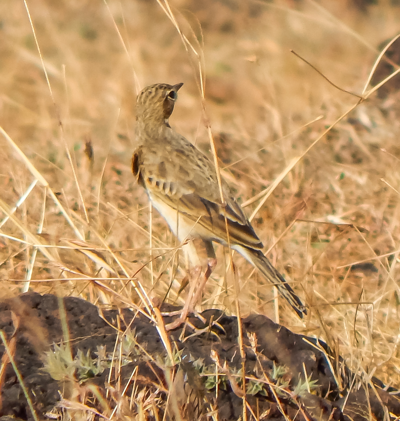 A Richard's pipit showing its nape and mantle